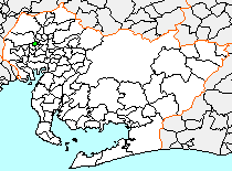 Modified by me from Wikipedia's file